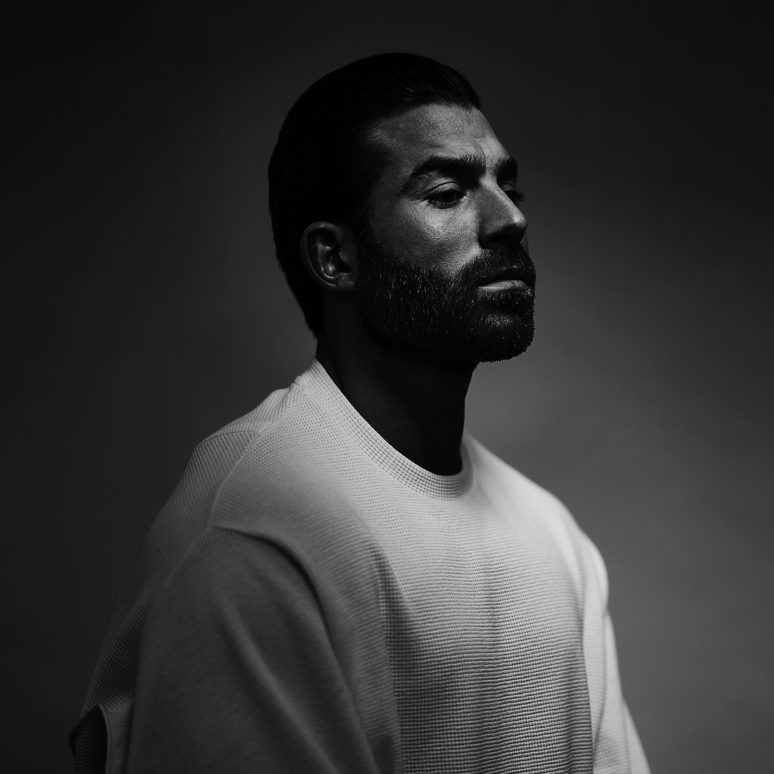 Pressefoto des Rappers Metrickz